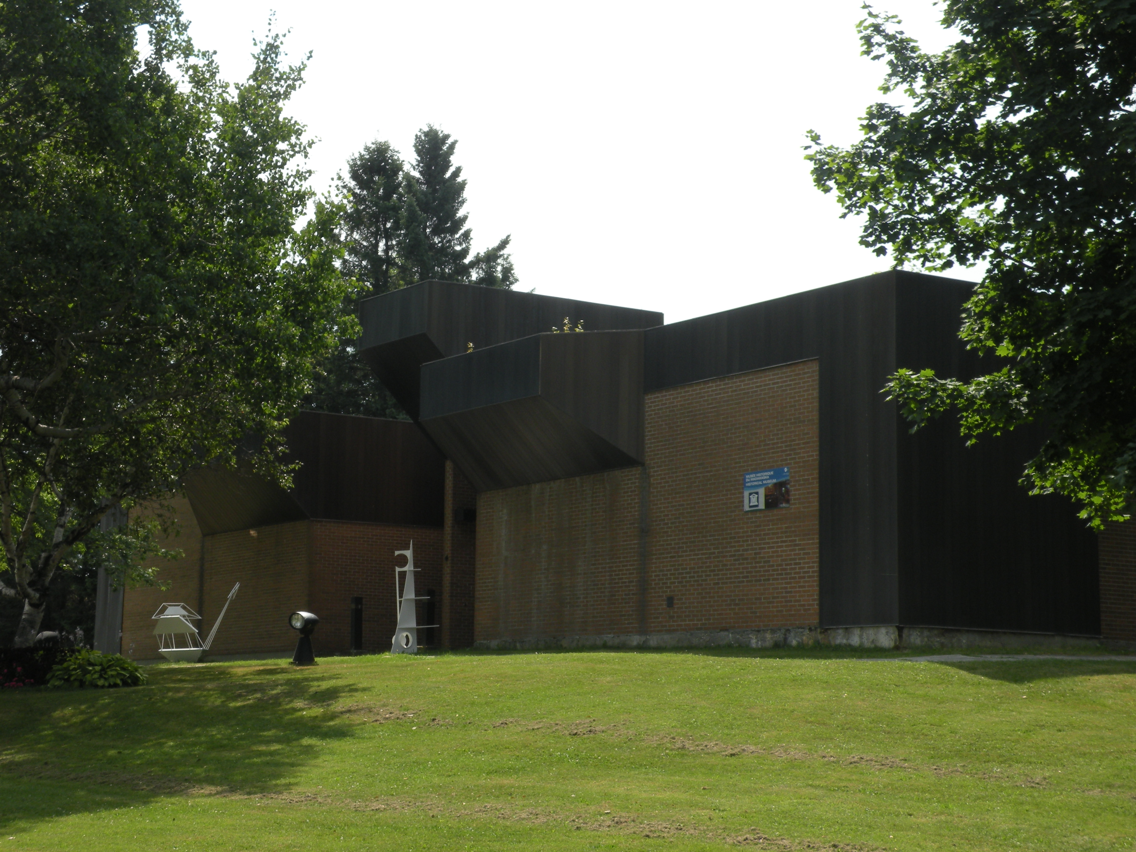 The Madawaska historical museum in Edmundston, New Brunswick, Canada.